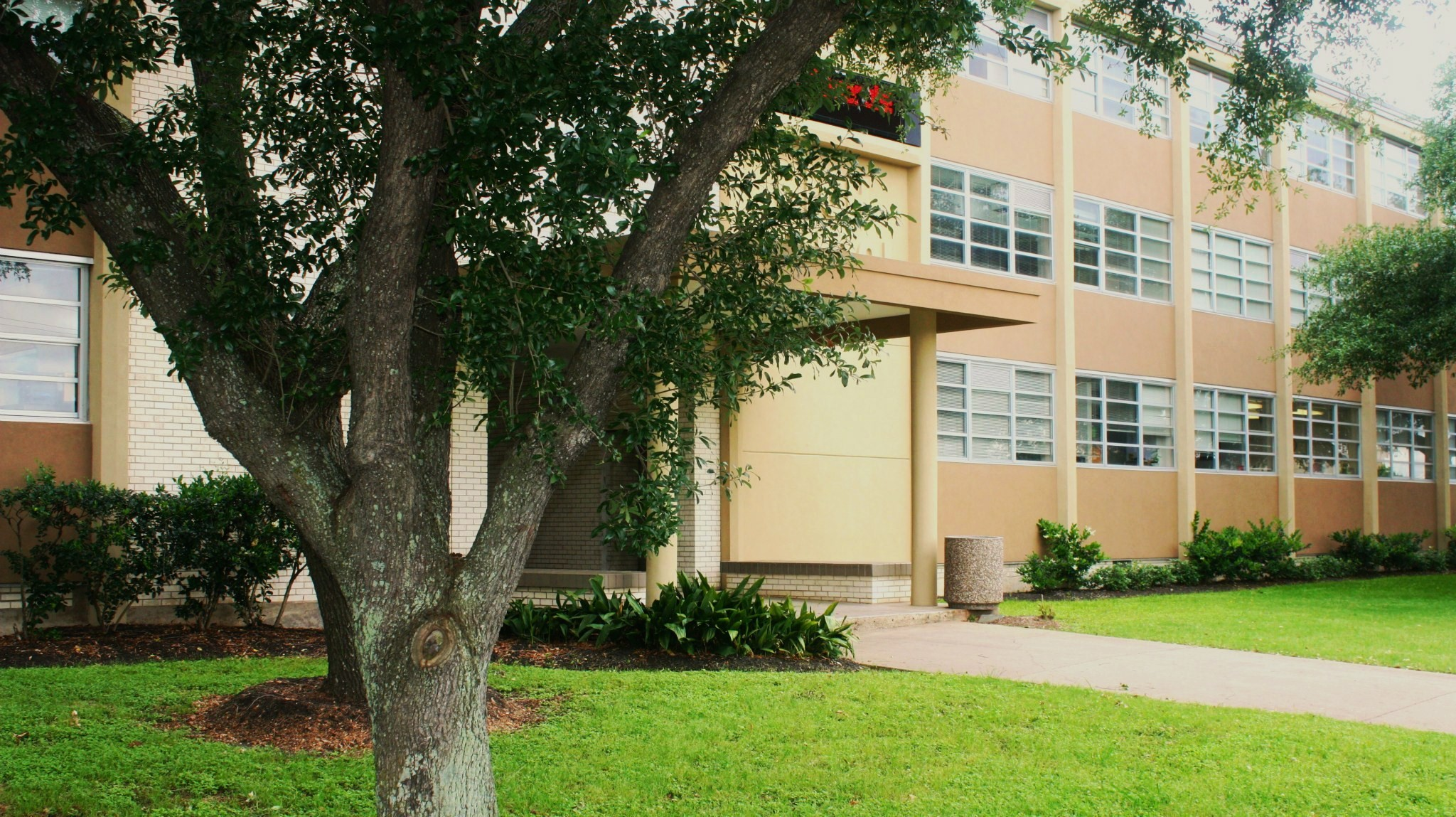 This is a picture of the newly renovated Lee High School Campus.